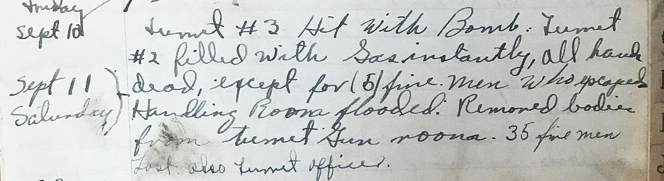 Display of logbook entry for Turret 2 of USS Savannah (CL-42) for September 11, 1943. Digital correction to overcome low lighting conditions and glare from display case window. Photo taken at at the Ships of the Sea Maritime Museum in Savannah, Georgia, U.S. on October 30, 2018: Handwritten text is believed to say: "Sept 11 Saturday Turret #3 Hit With Bomb. Turret #2 filled with Gas instantly, all hands dead, except for (5) fire men who escaped. Handling Rooms flooded. Removed bodies from turret Gun rooms. 35 fire men Lost. also turret officer."